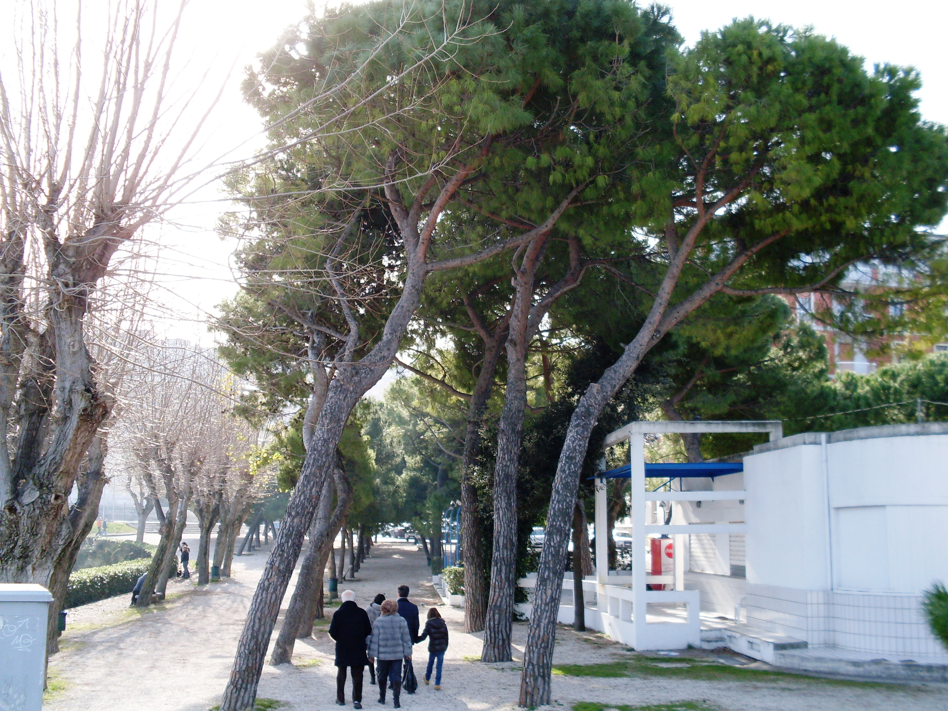 Italy Ancona Passetto - pinewood